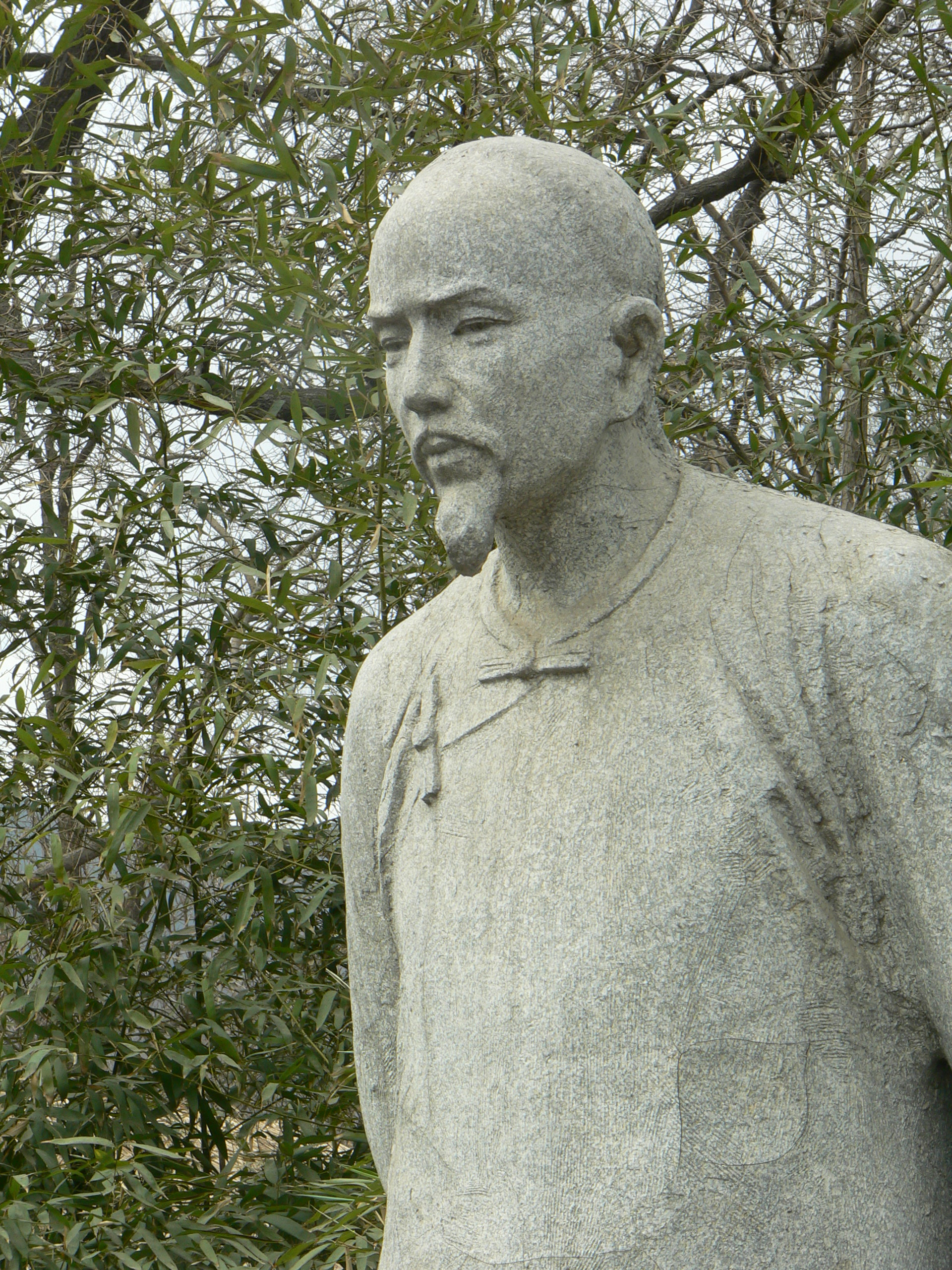 Statue of Cao Xueqin, the author of Hongloumeng.